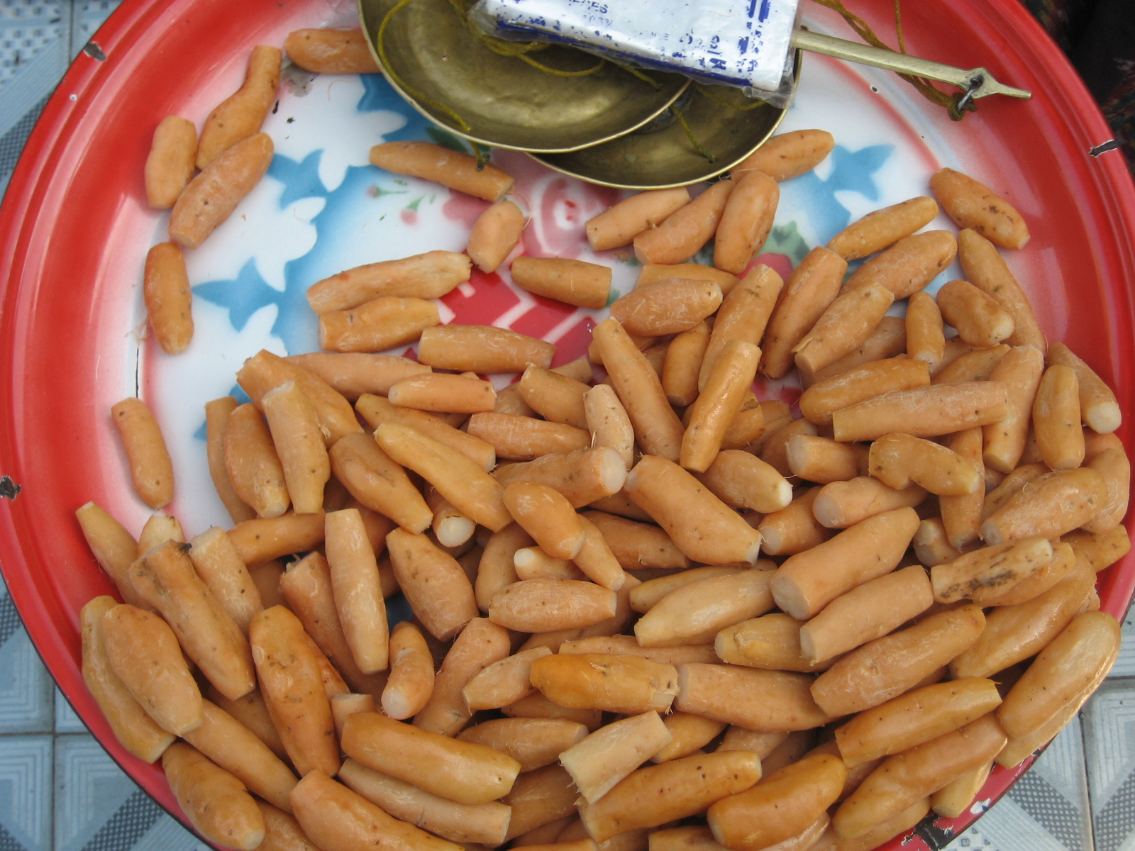 Boiled roots of winged bean (pè myit) in Myanmar